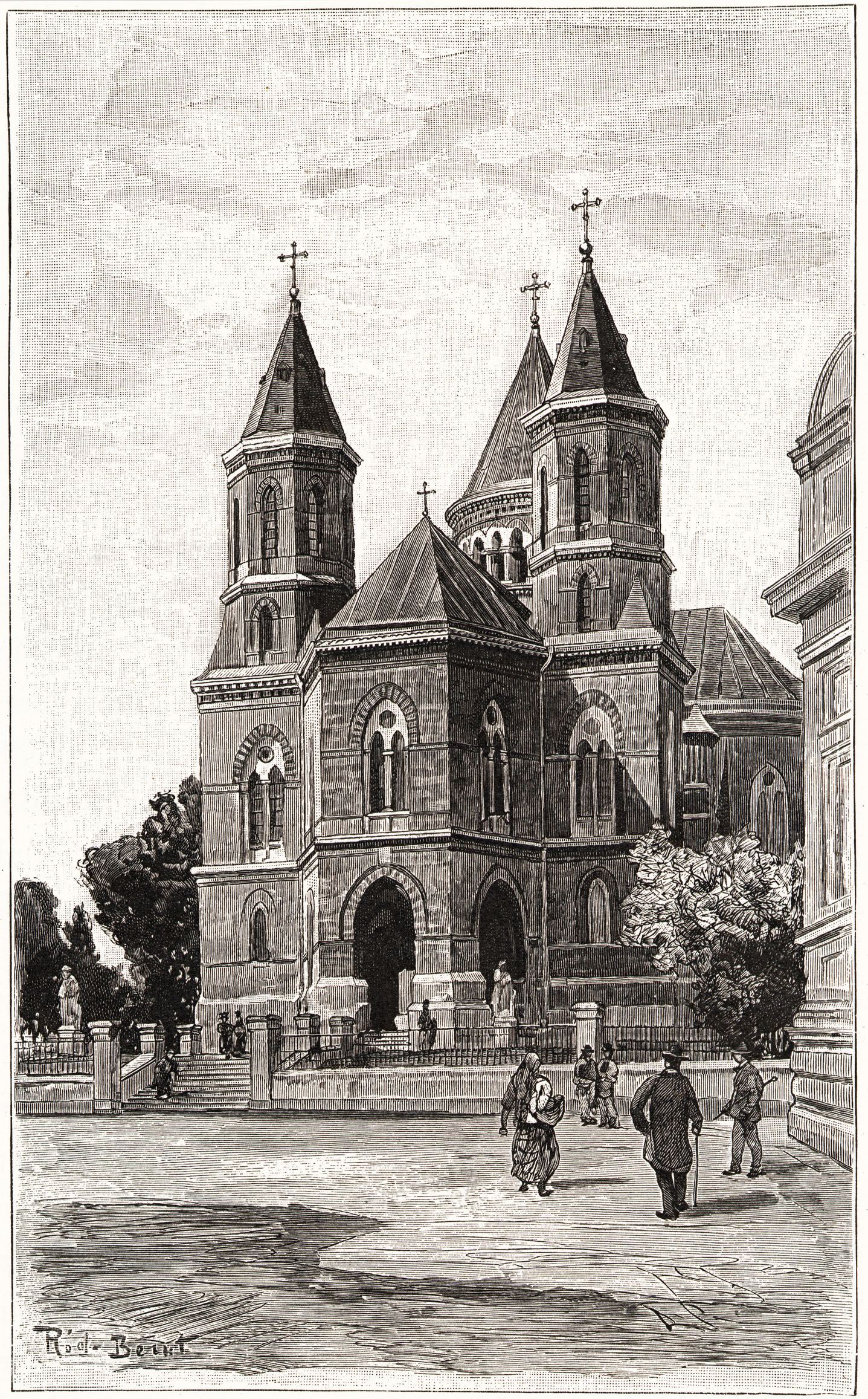 Armenian church in Czernowitz, Austria (now Chernovtsy, Ukraine)